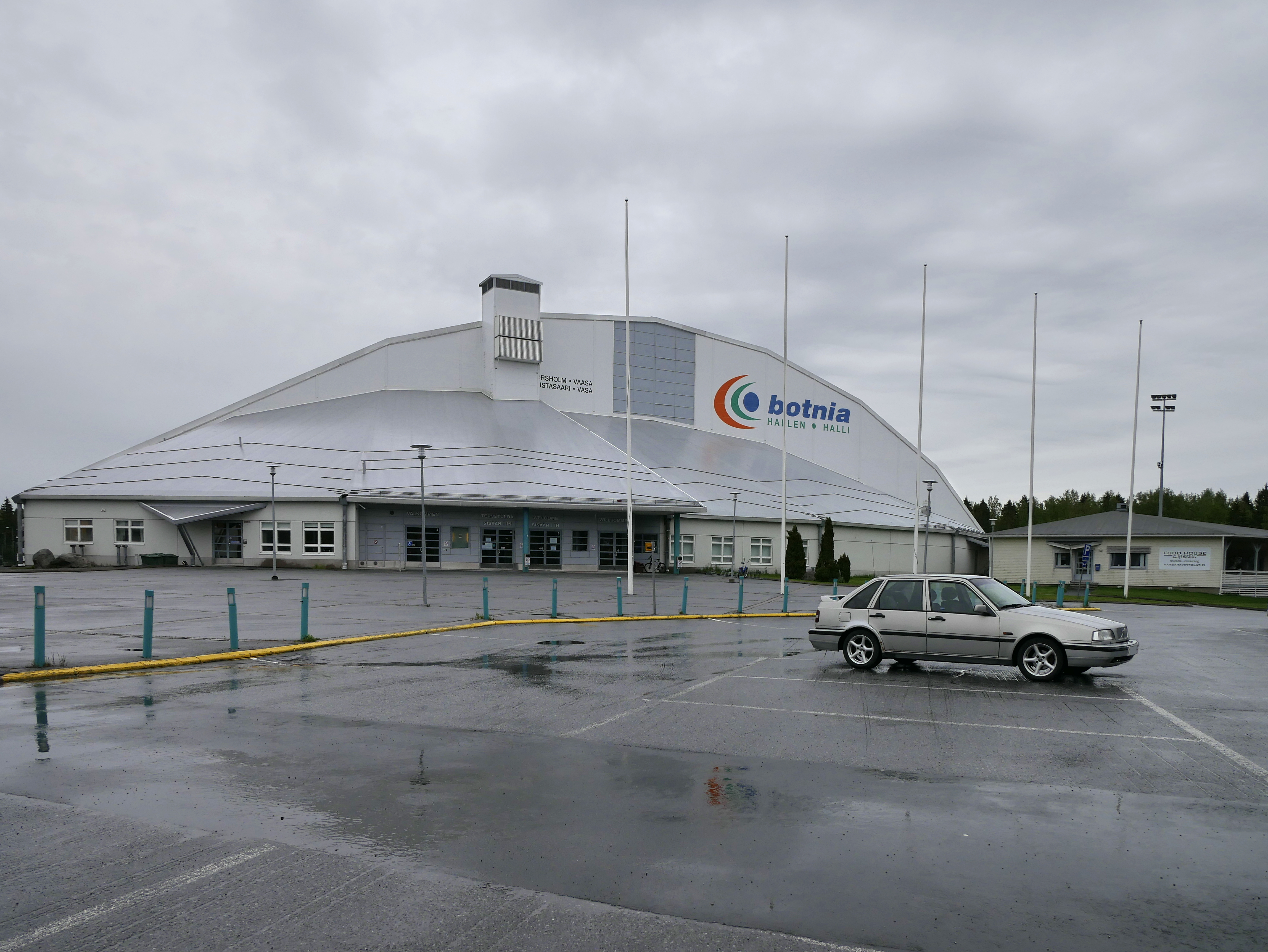 Botniahall in Mustasaari, Finland.